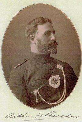 Major Arthur Godfrey Peuchen, survivor of the sinking of Titanic